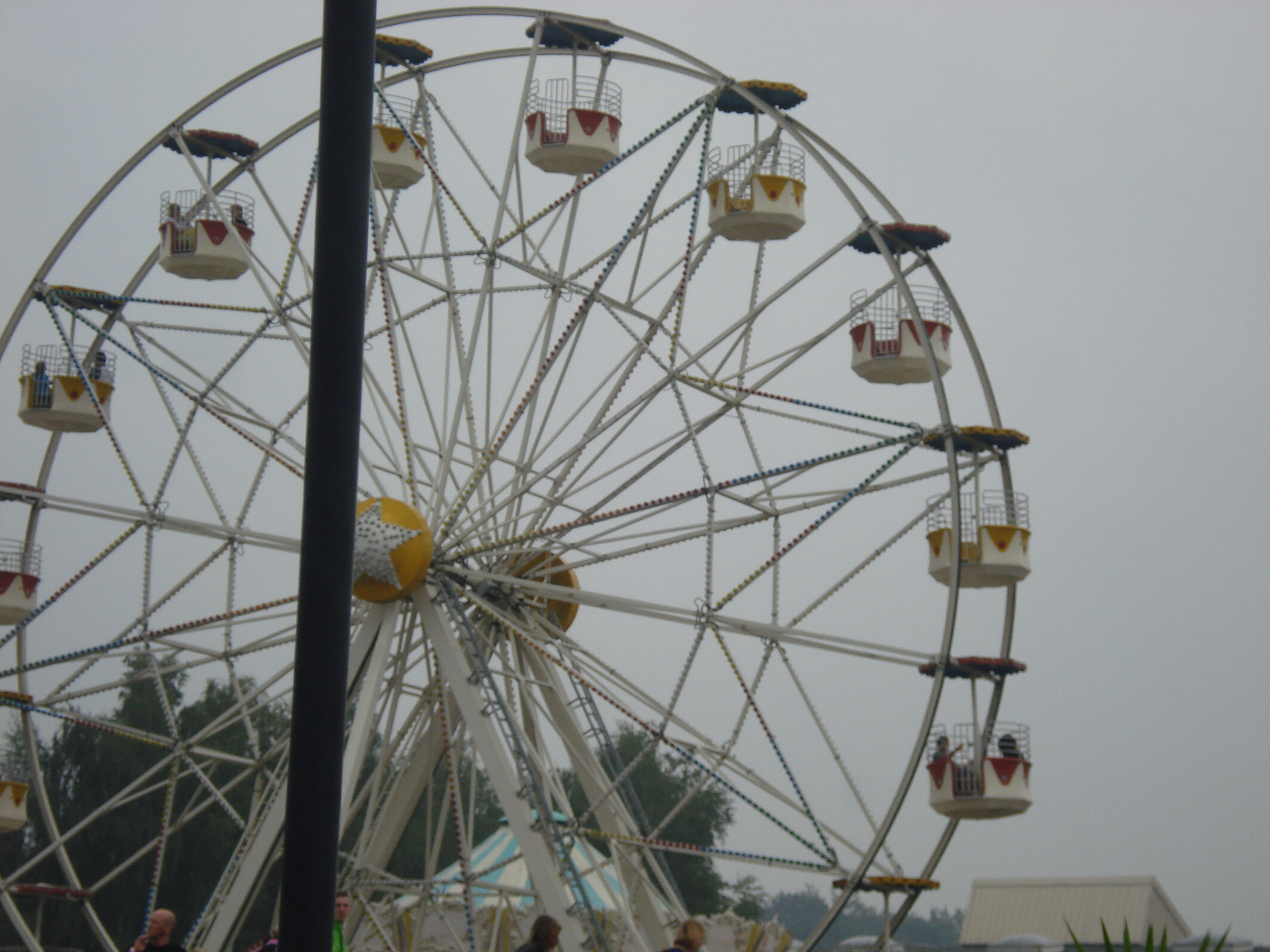 Santa Monica Wheel